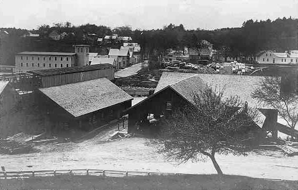 Mills at the Saco River, West Buxton, ME; from a c. 1910 postcard.